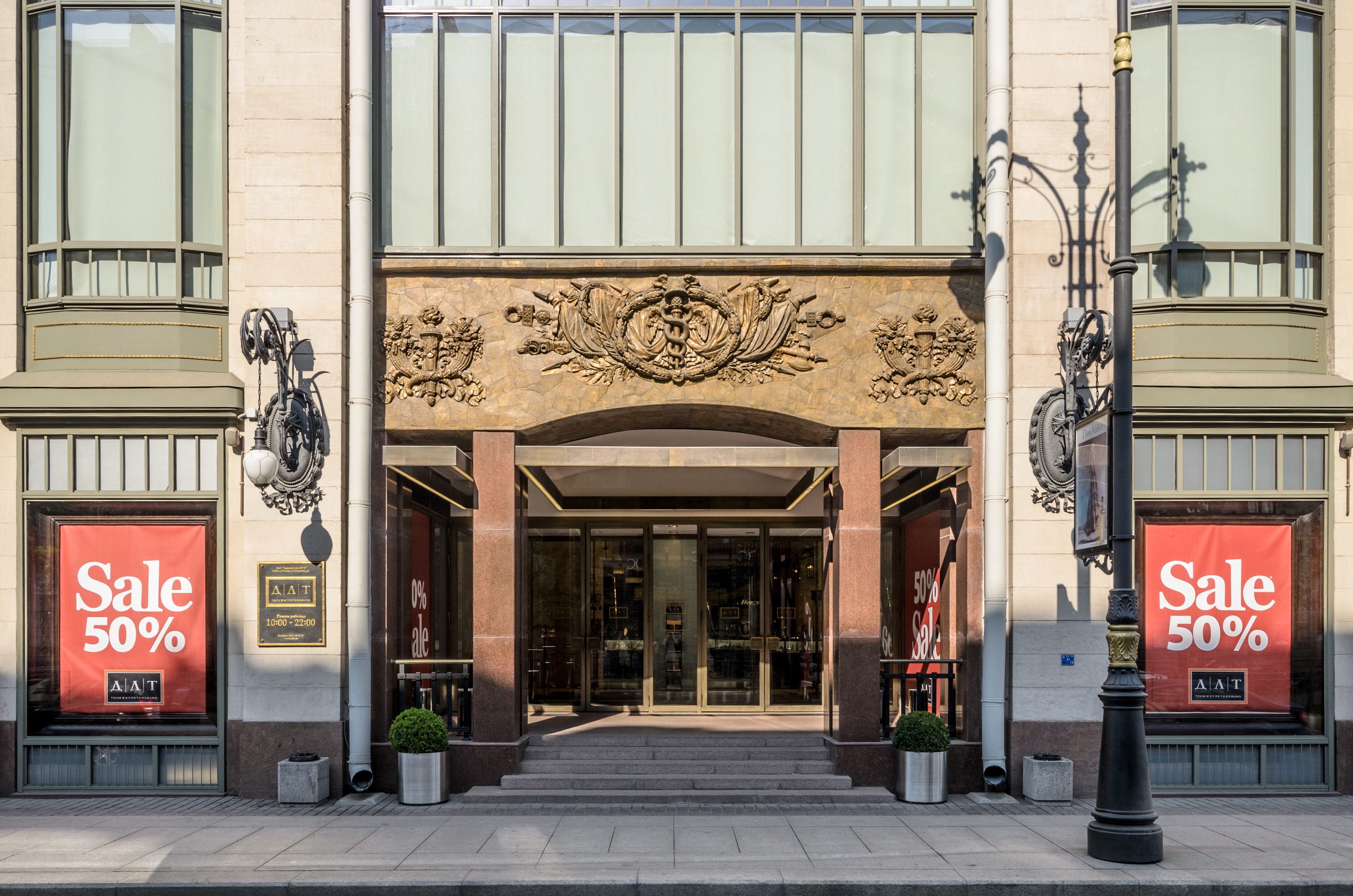 "DLT" Department Store at Bolshaya Konushennaya Street in Saint Petersburg